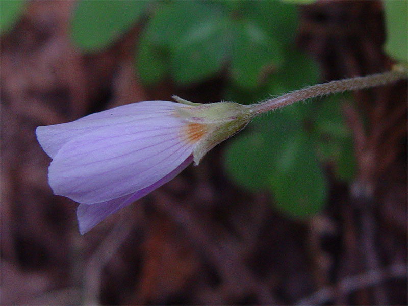 Description Oxalis oregana, Redwood Sorrel. Date April 10, 2004 Location Pescadero Creek County Park, San Mateo Co., California Photographer Franco Folini